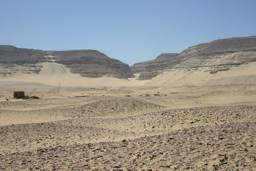 General view of Umm el-Qa'ab - showing reason why it is called 'Mother of Pots'